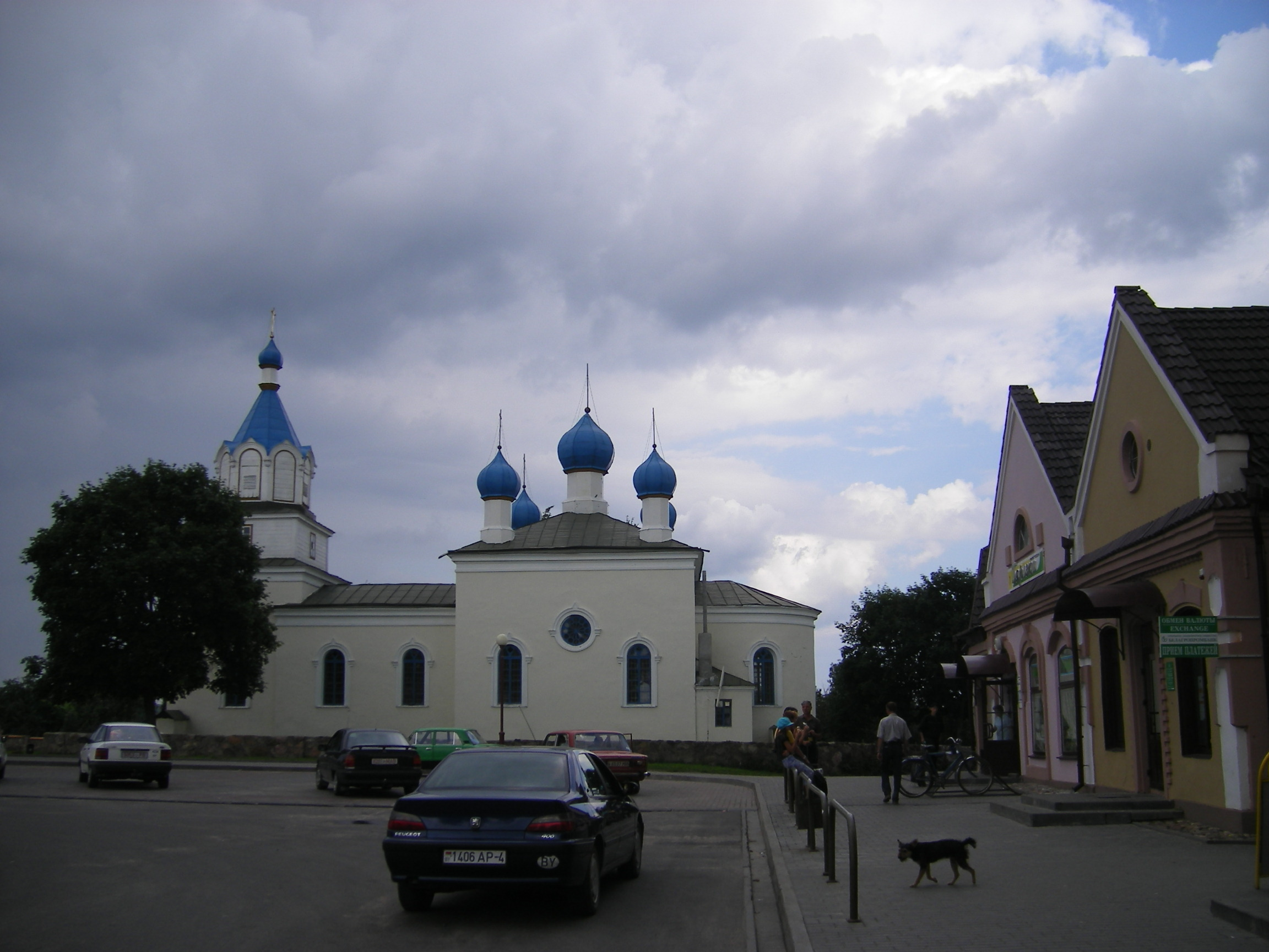 Church of Holy Trinity, Mir, Belarus.